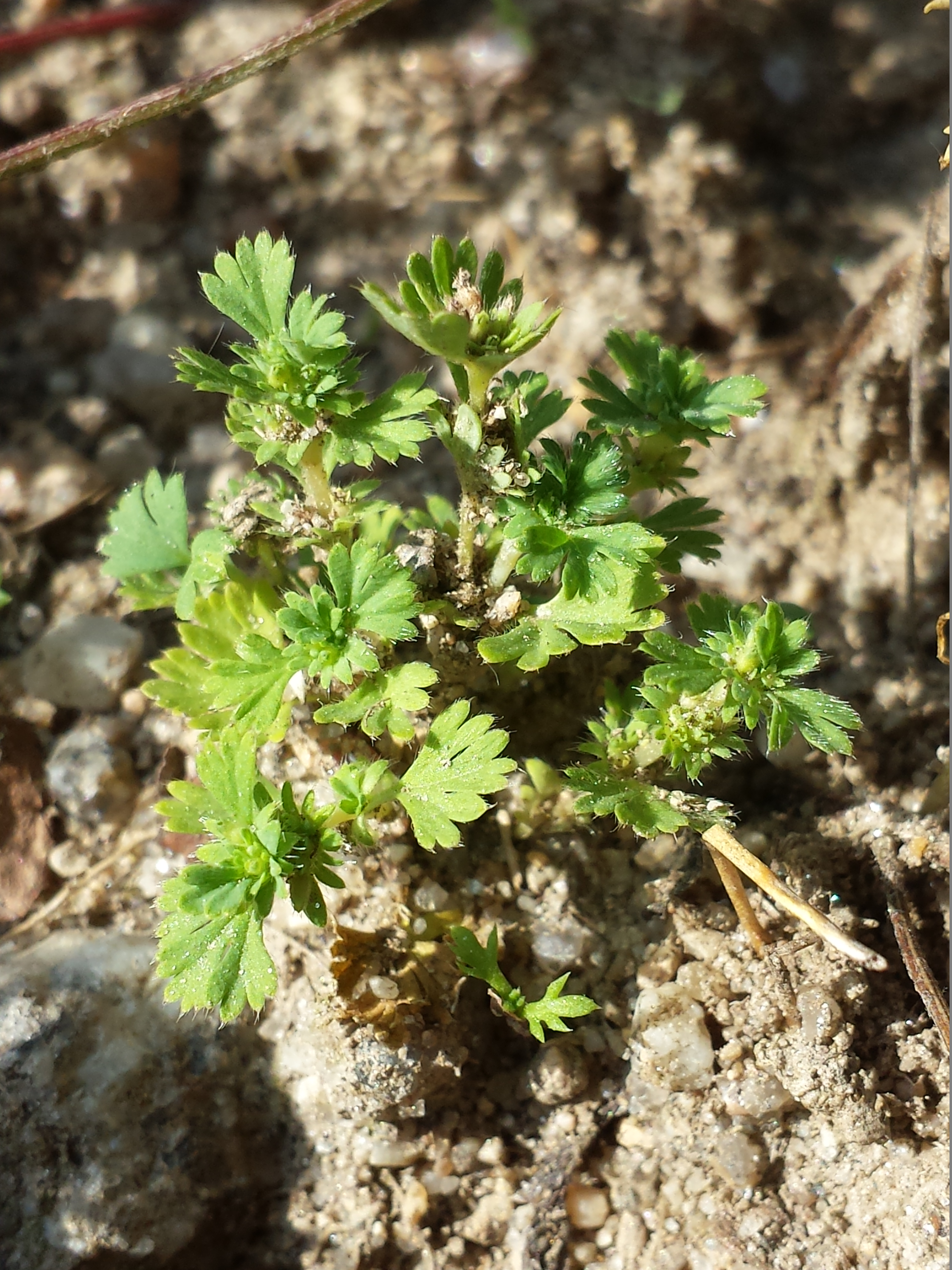 Habitus Taxonym: Aphanes australis ss Fischer et al. EfÖLS 2008 ISBN 978-3-85474-187-9 Location: Blockheide near Gmünd, district Gmünd, Lower Austria - ca. 500 m a.s.l. Habitat: field